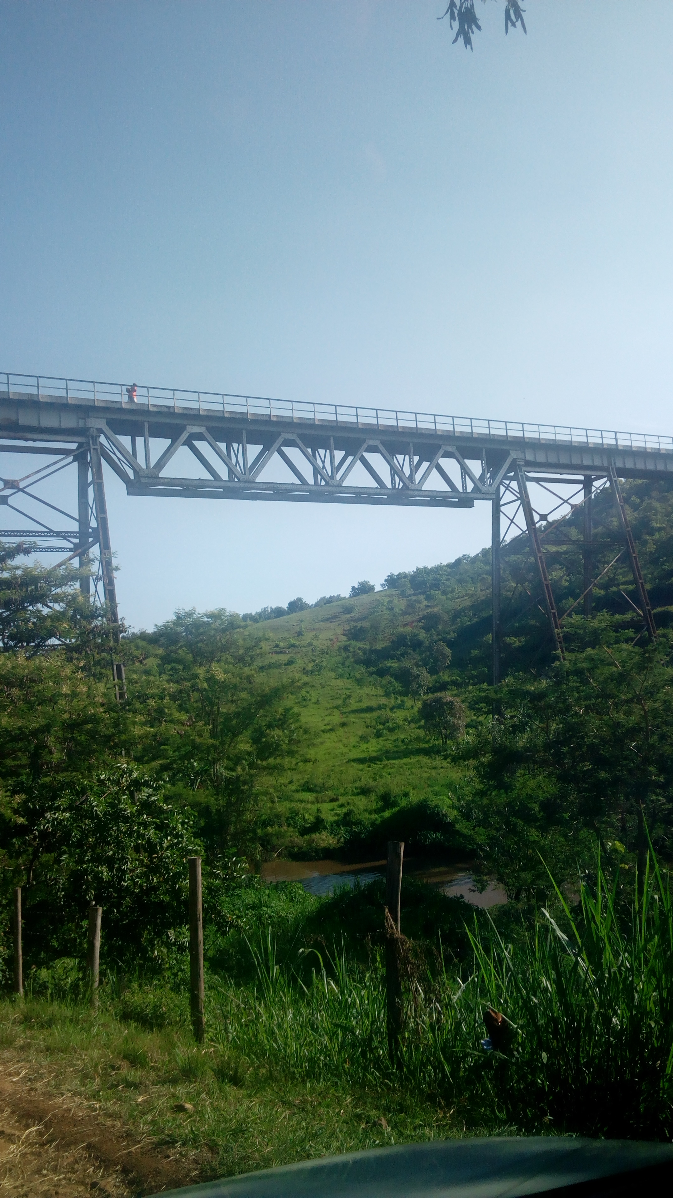 Built by the Kenyan colonial government in the first half of the 20th century, the railway line to Murang'a town was one of the most important forms of transport in the country's central area. Due to the rough terrain, engineers had to come up with cutting-edge engineering solutions of the time such as this 150 metre steel bridge at an elevation of 15 metres from the river.. This is an image with the theme "Africa on the Move or Transport" from: Kenya